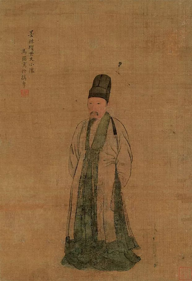 Xiang Yuan Bian, collector of the Ming Dynasty.